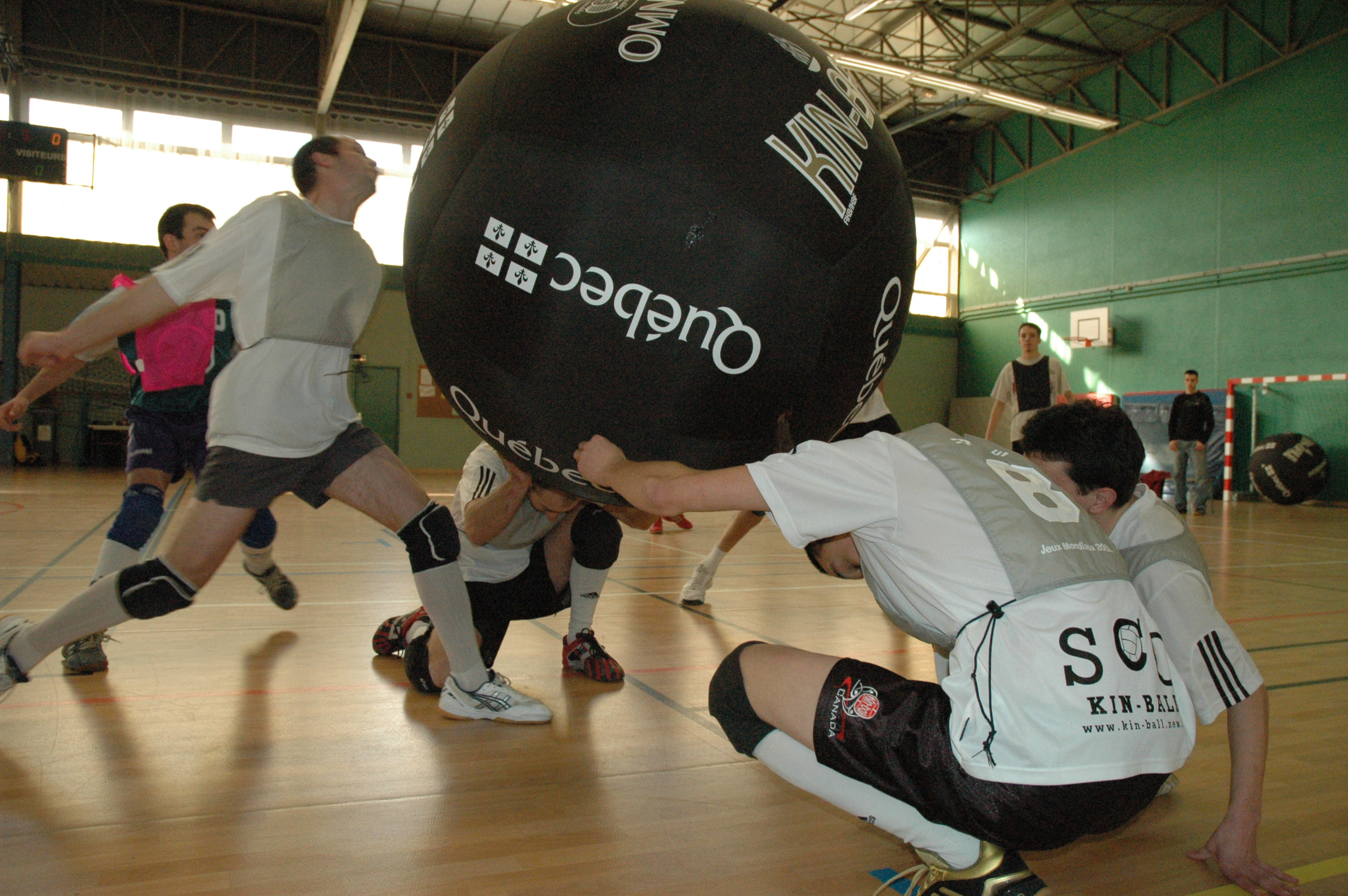 Match de kin-ball a Rennes